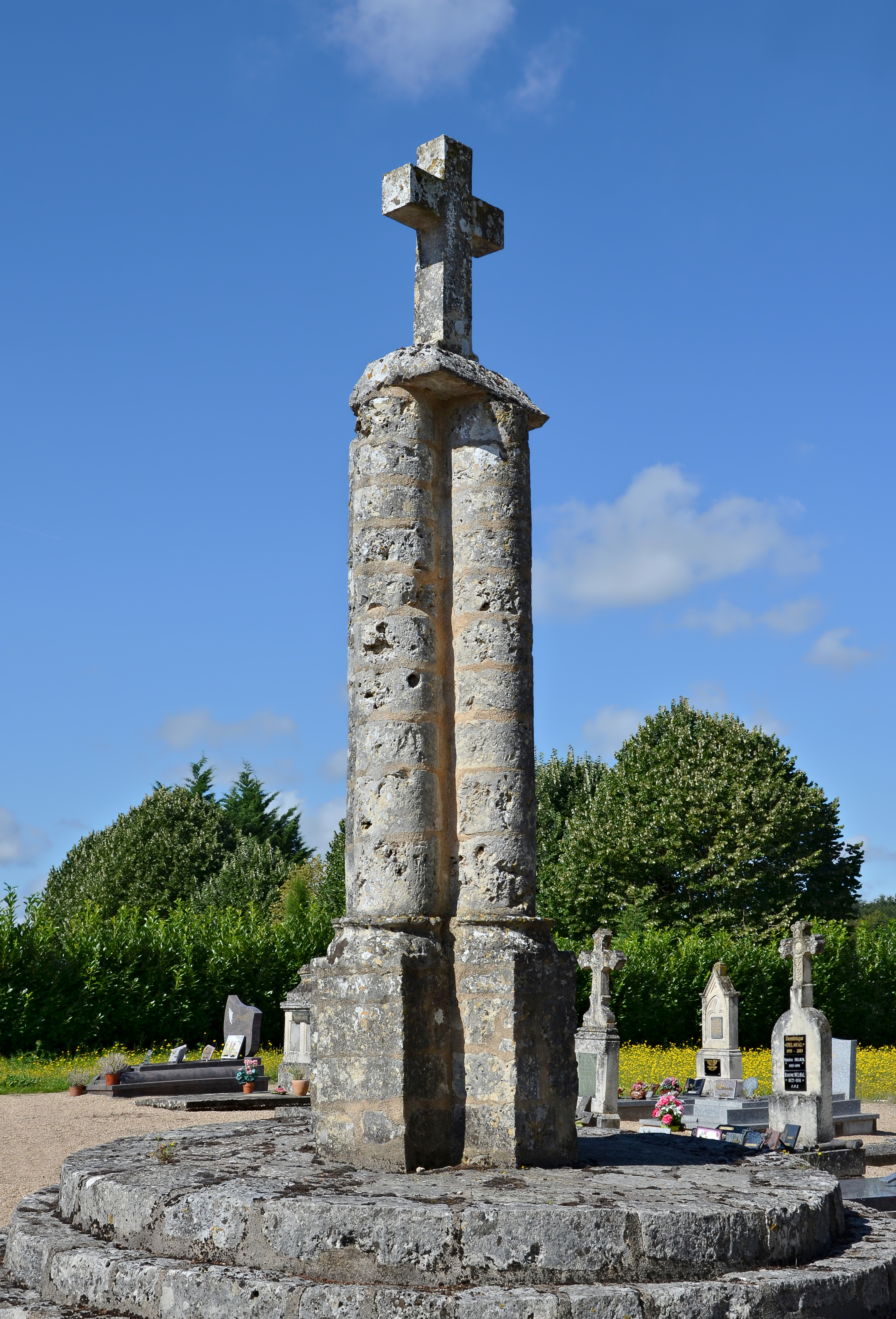 Hosanna cross, cemetery of Champniers, Vienne, France.